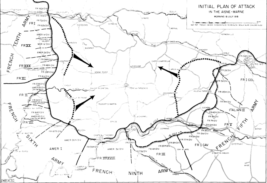 Allied plan of attack at Soissons for the morning of 18 July 1918. The French Tenth Army would carry out the main attack to cut off the main German supply routes in the Marne Salient with the French Sixth Army attacking south of the Ourcq River in support of the French Tenth Army. The French Fifth Army would attack the eastern flank of the salient near Reims.